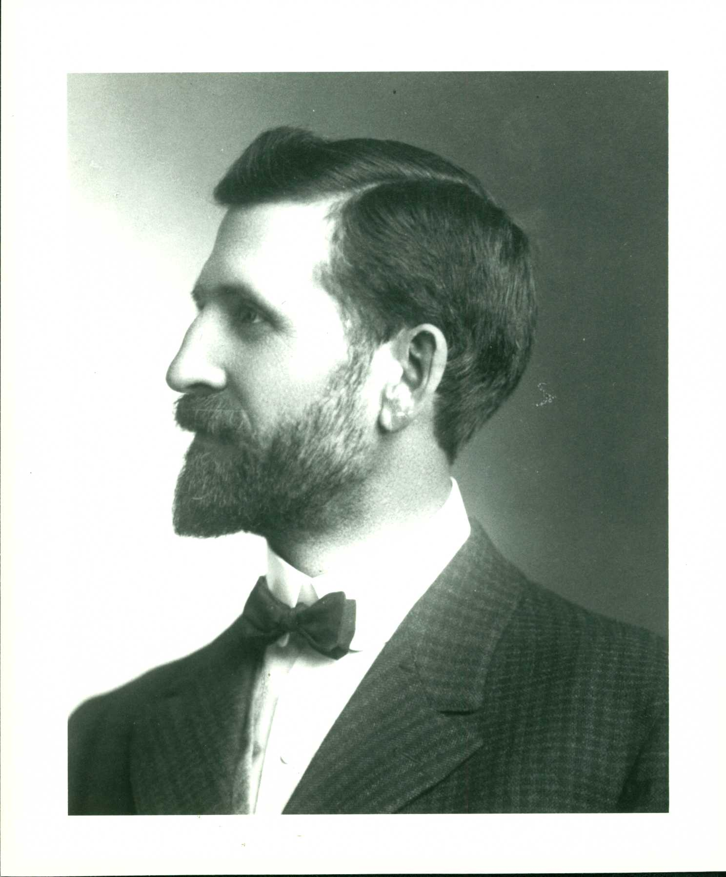 Portrait